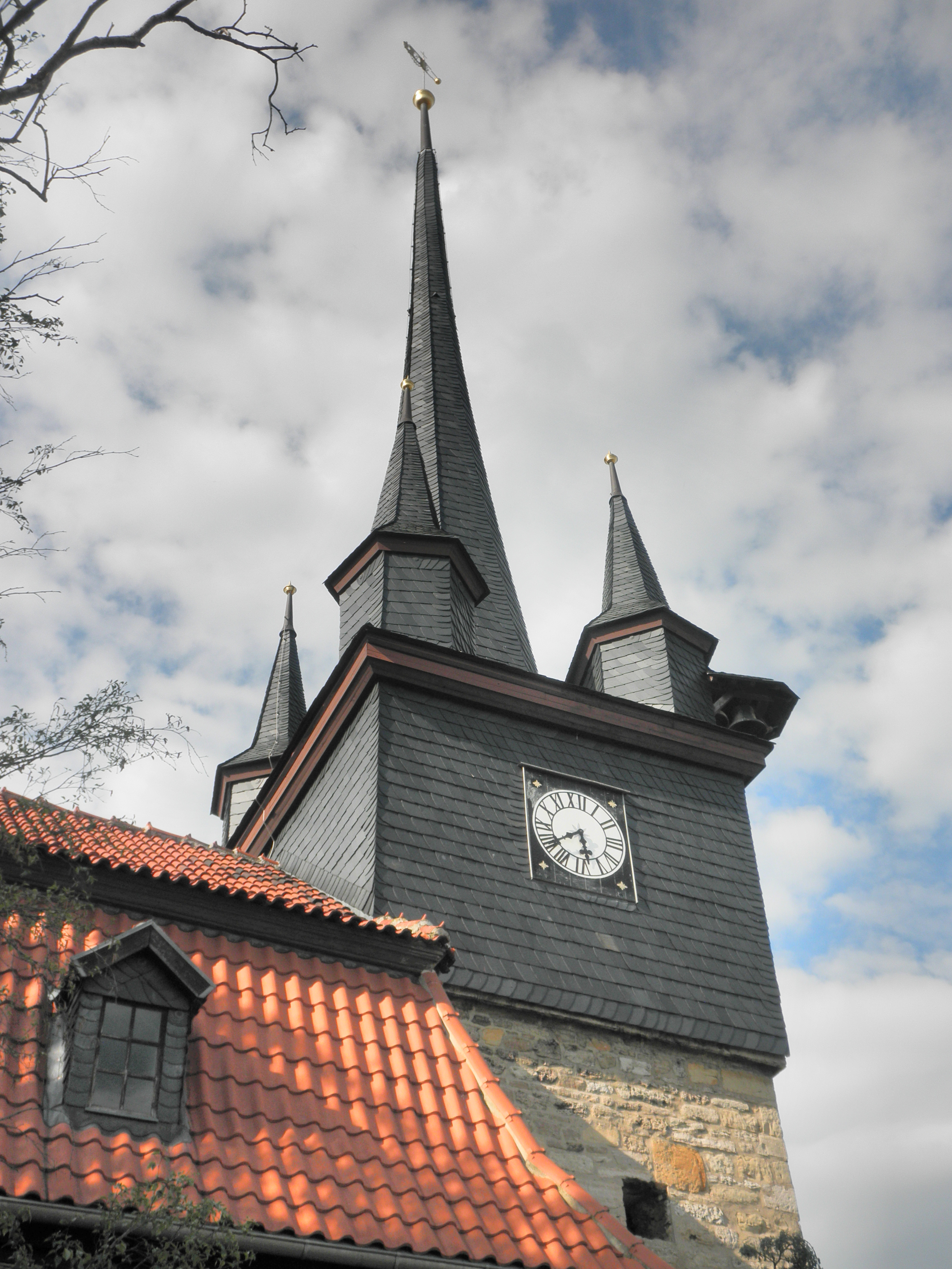 Church Tower in Feldengel (Großenehrich) in Thuringia